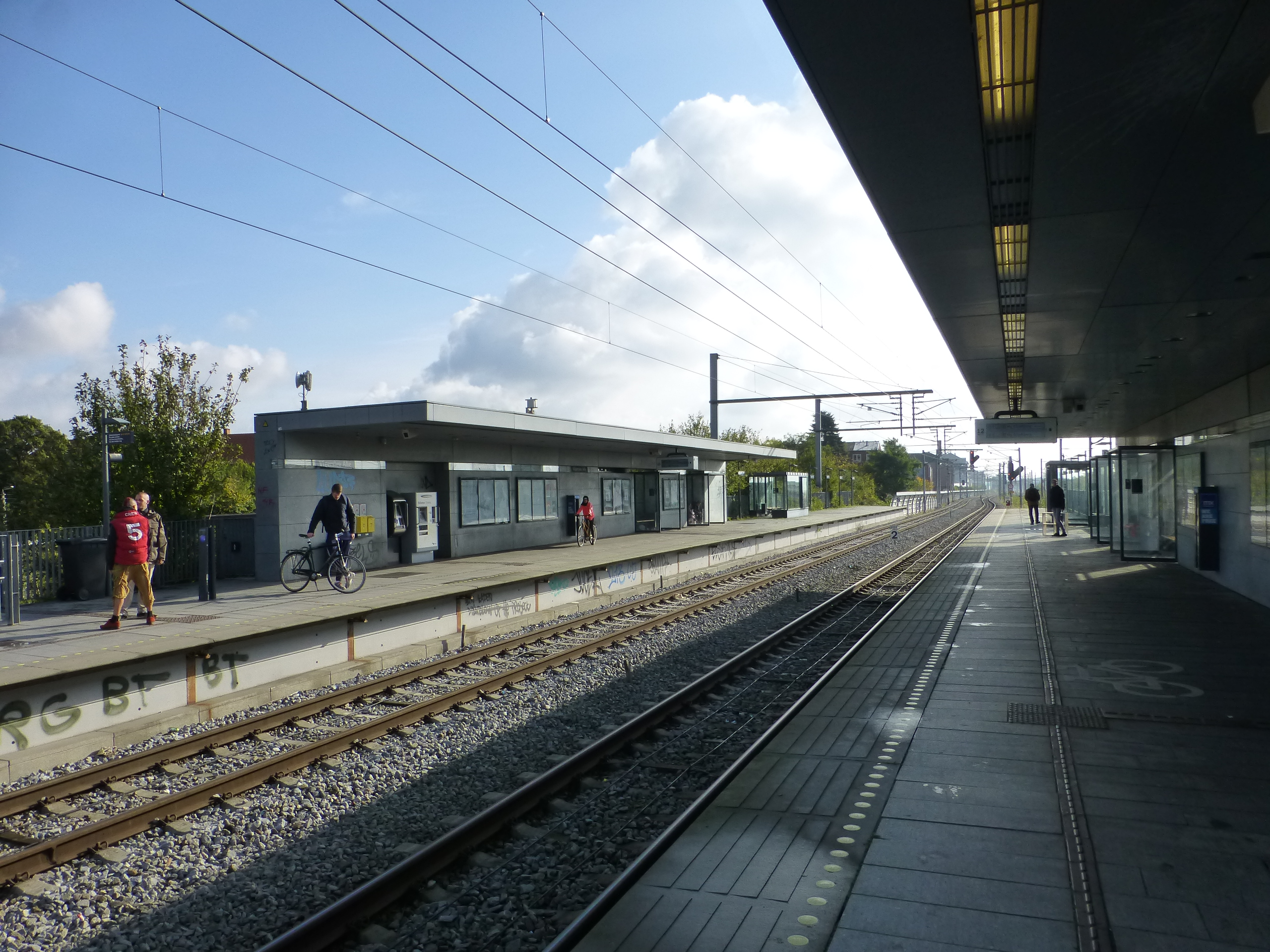 Vigerslev Alle Station, a S-train station on Ringbanen between Hellerup and Ny Ellebjerg in Copenhagen.